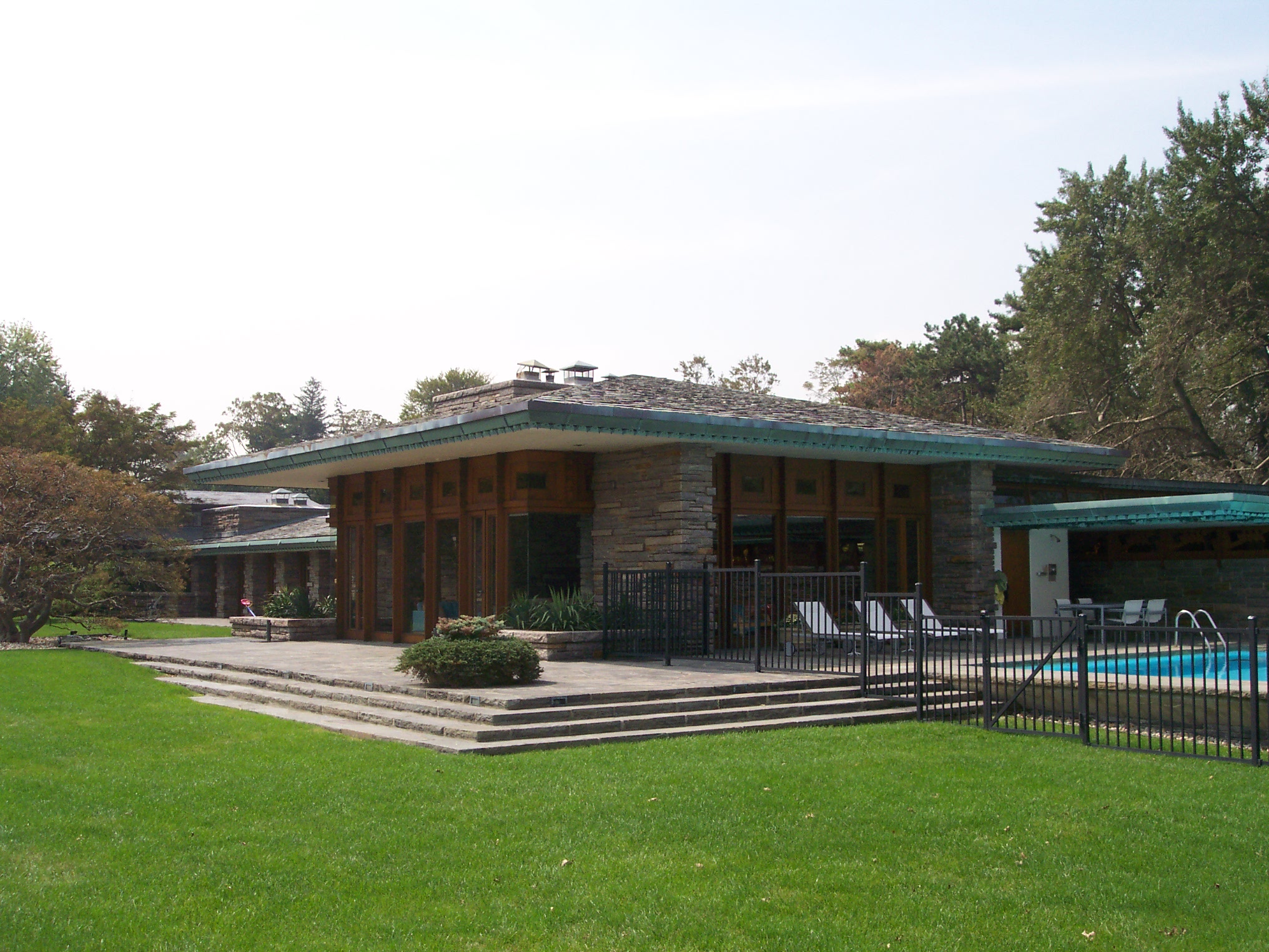 Max Hoffman House, Rye, New York. Photo by self, Steve Maxwell, September 2006